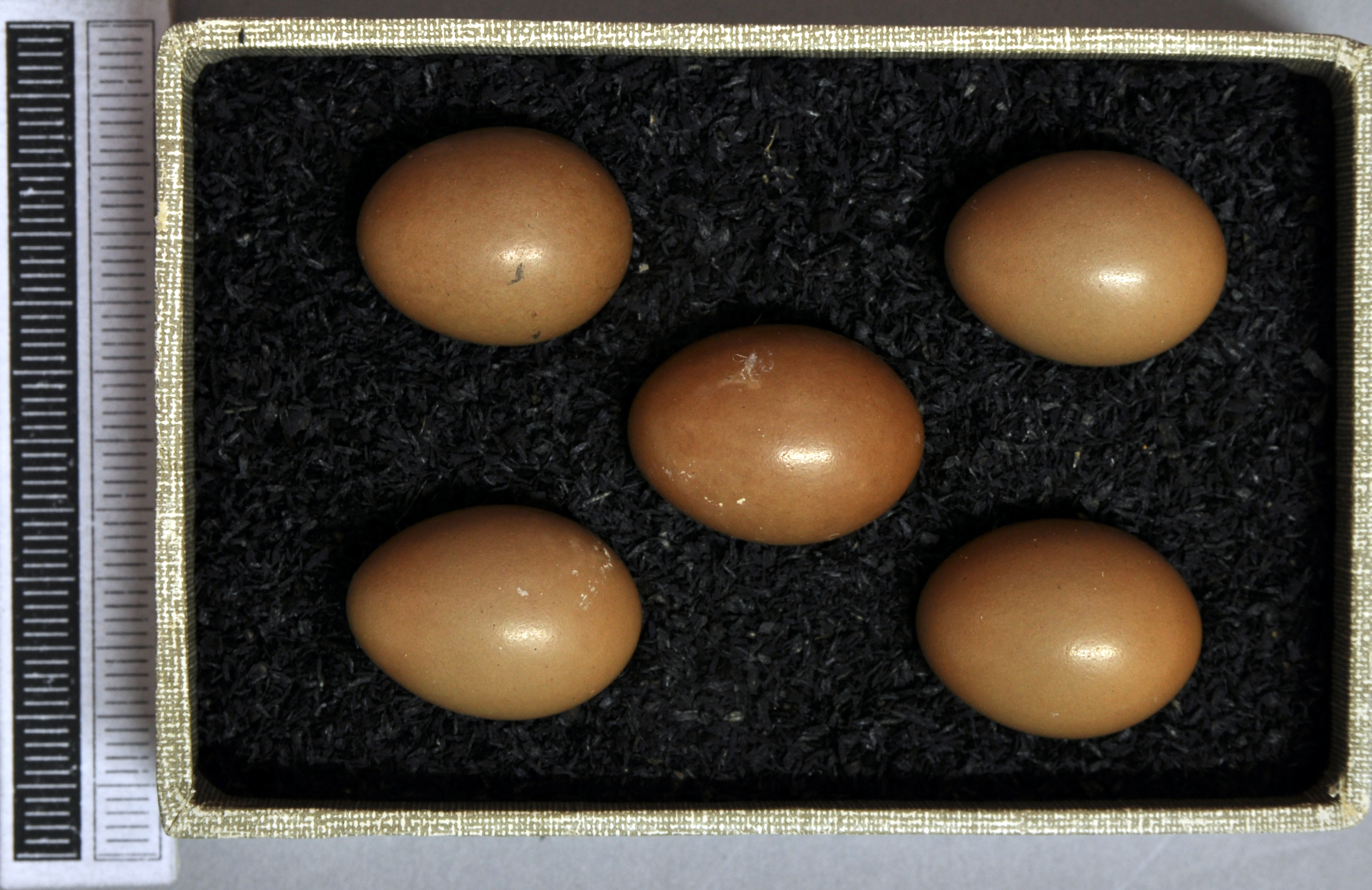 Thrush nightingale Luscinia luscinia , egg, Coll. Museum Wiesbaden